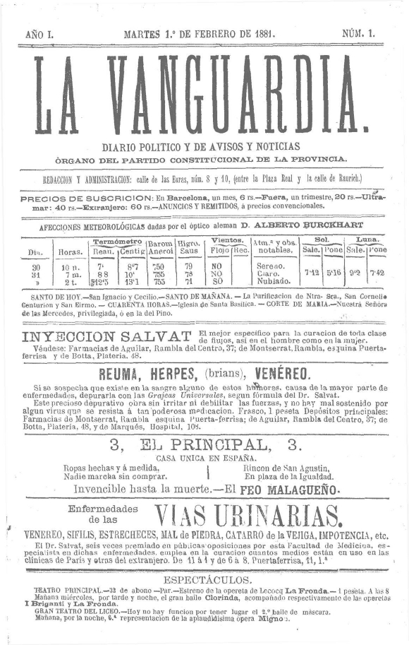 Front page of the first number of spanish newspaper "La Vanguárdia"